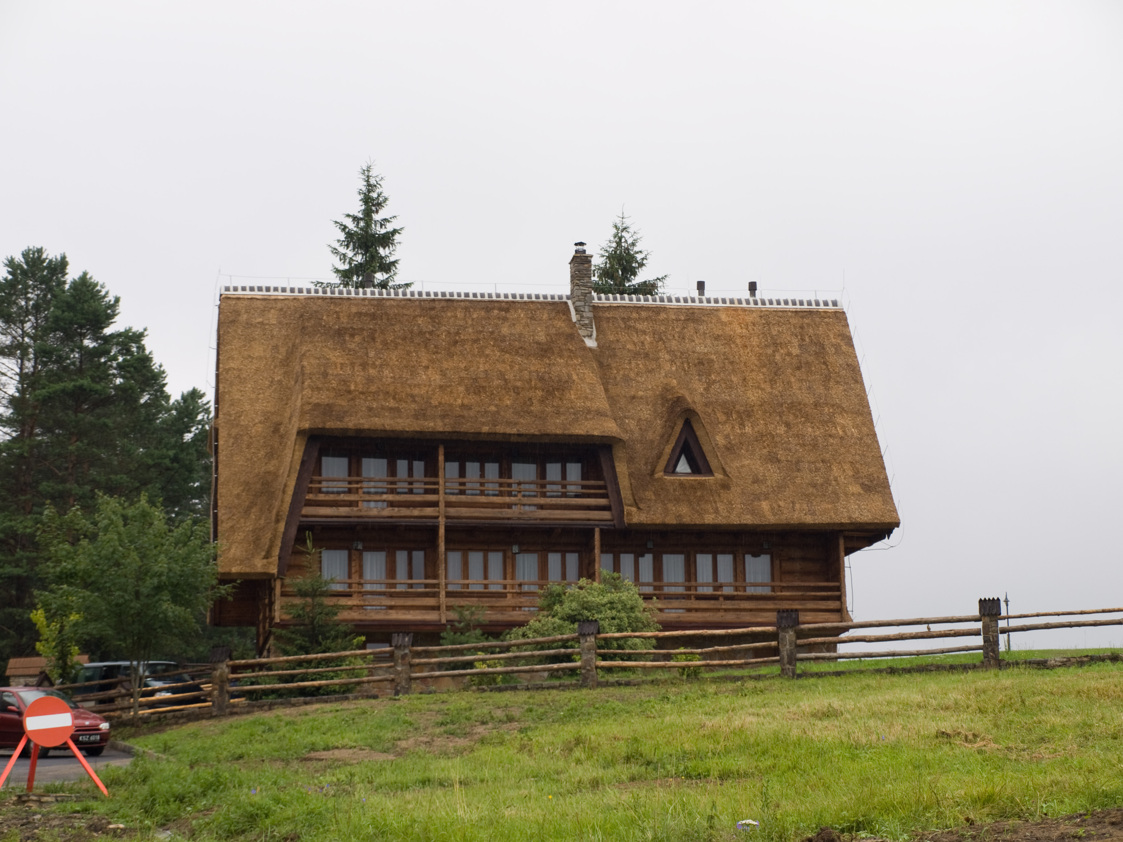 Trójca, Subcarpathian Voivodeship